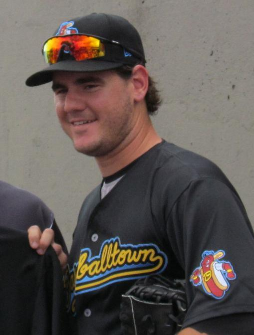 Tommy Joseph at the AA All-Star Classic in Reading PA. July 11 2012